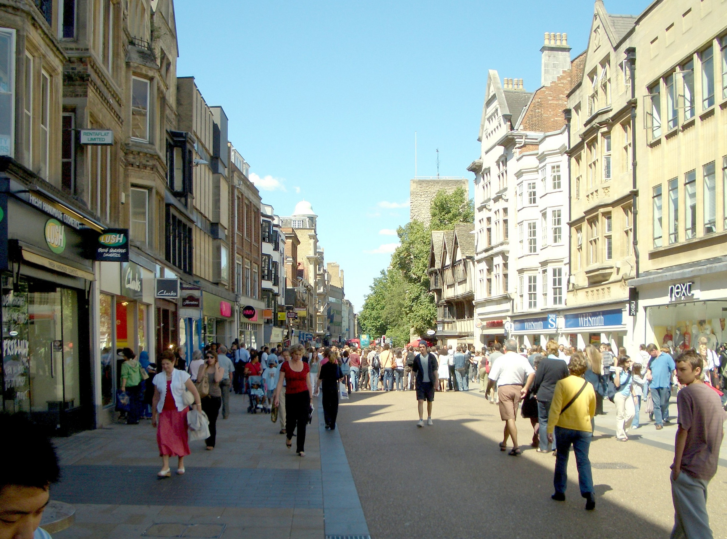 Cornmarket St, Oxford, England, looking north towards the tower of St Michael at the North Gate parish church